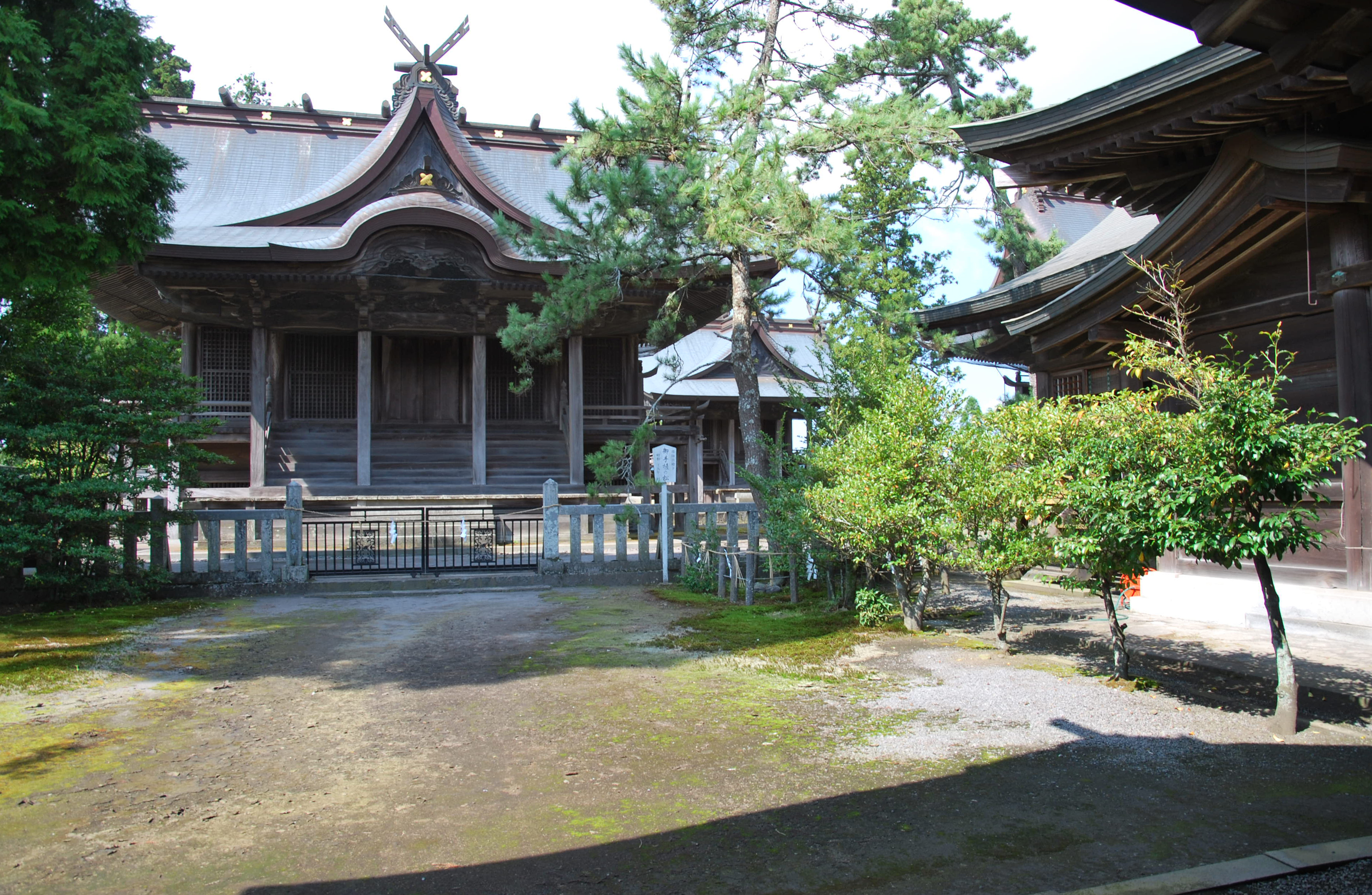 Ichi-no-sinden(this side) and San-no-shinden(back side) all of these Japan's national important cultural property, Aso-jinja